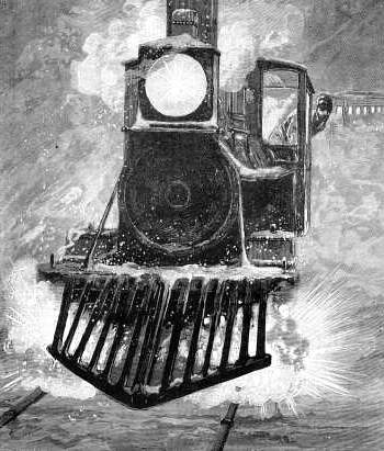 This illustration is from an 1882 Leslie's Monthly and portrays an engineer (fireman) finding a TORPEDO on the track. Torpedoes were used to signify danger ahead! found at